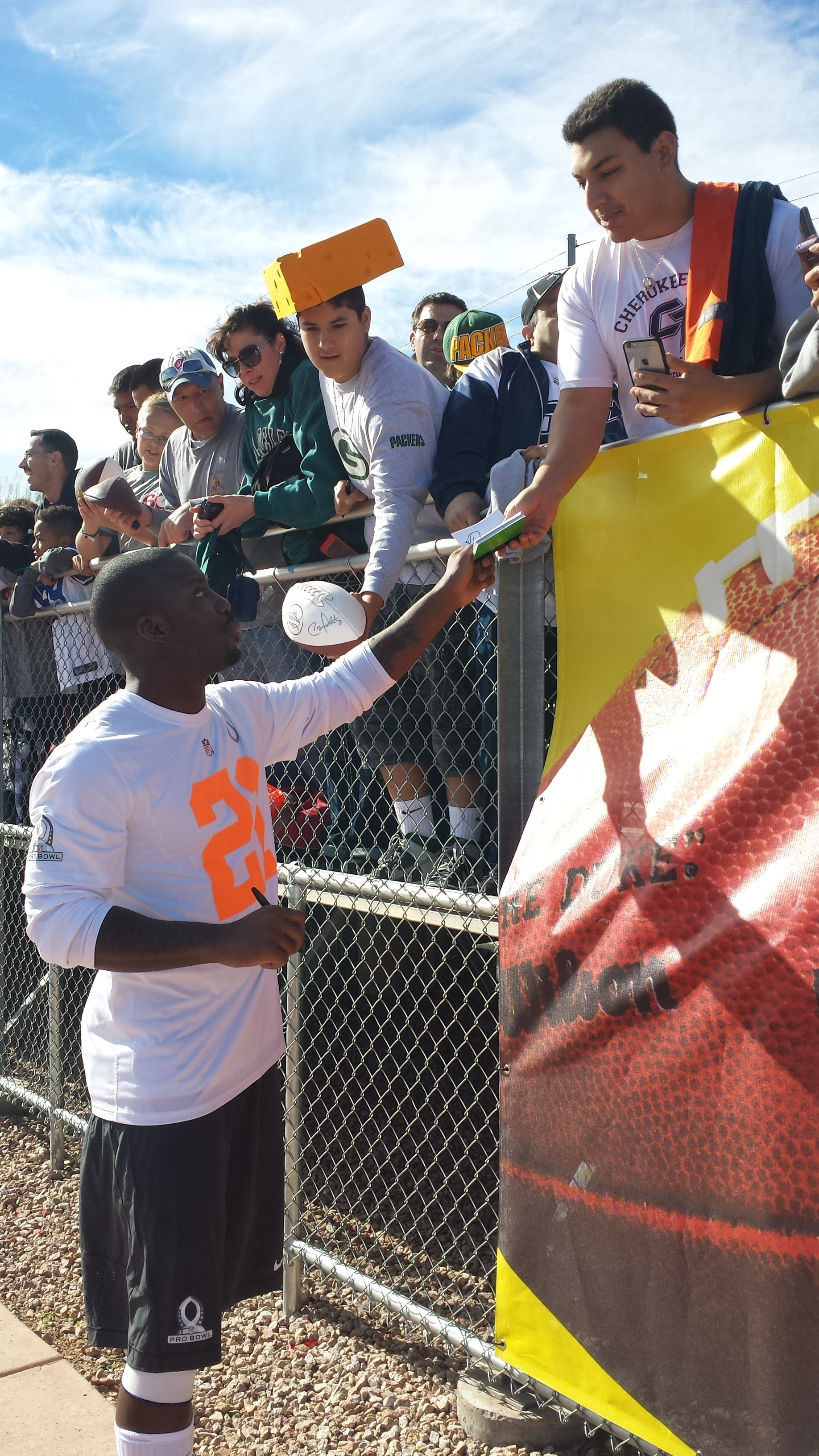 Vontae Davis signing autographs after a Pro Bowl practice in January 2015.